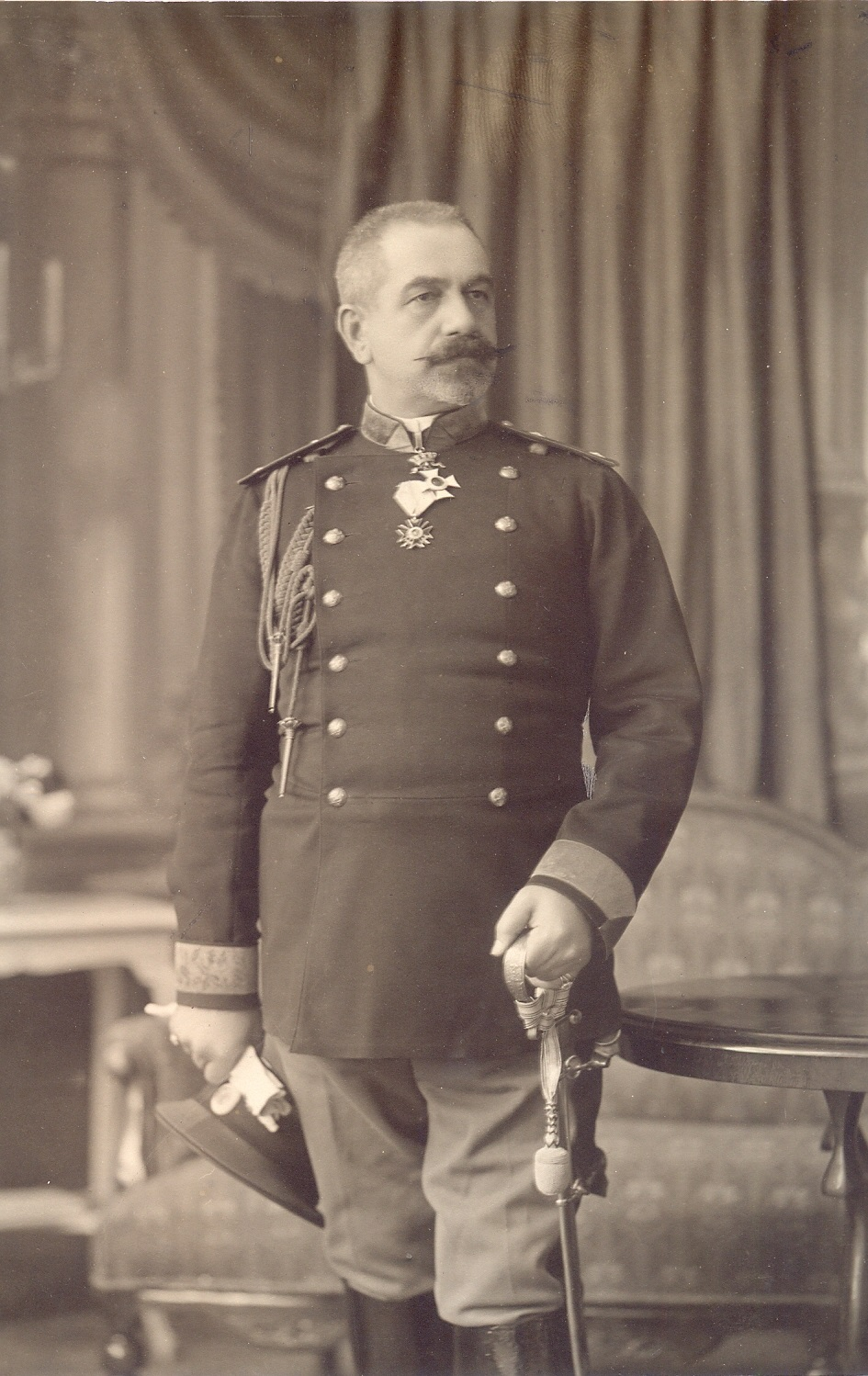 Bulgarian general Nikifor Nikiforov.